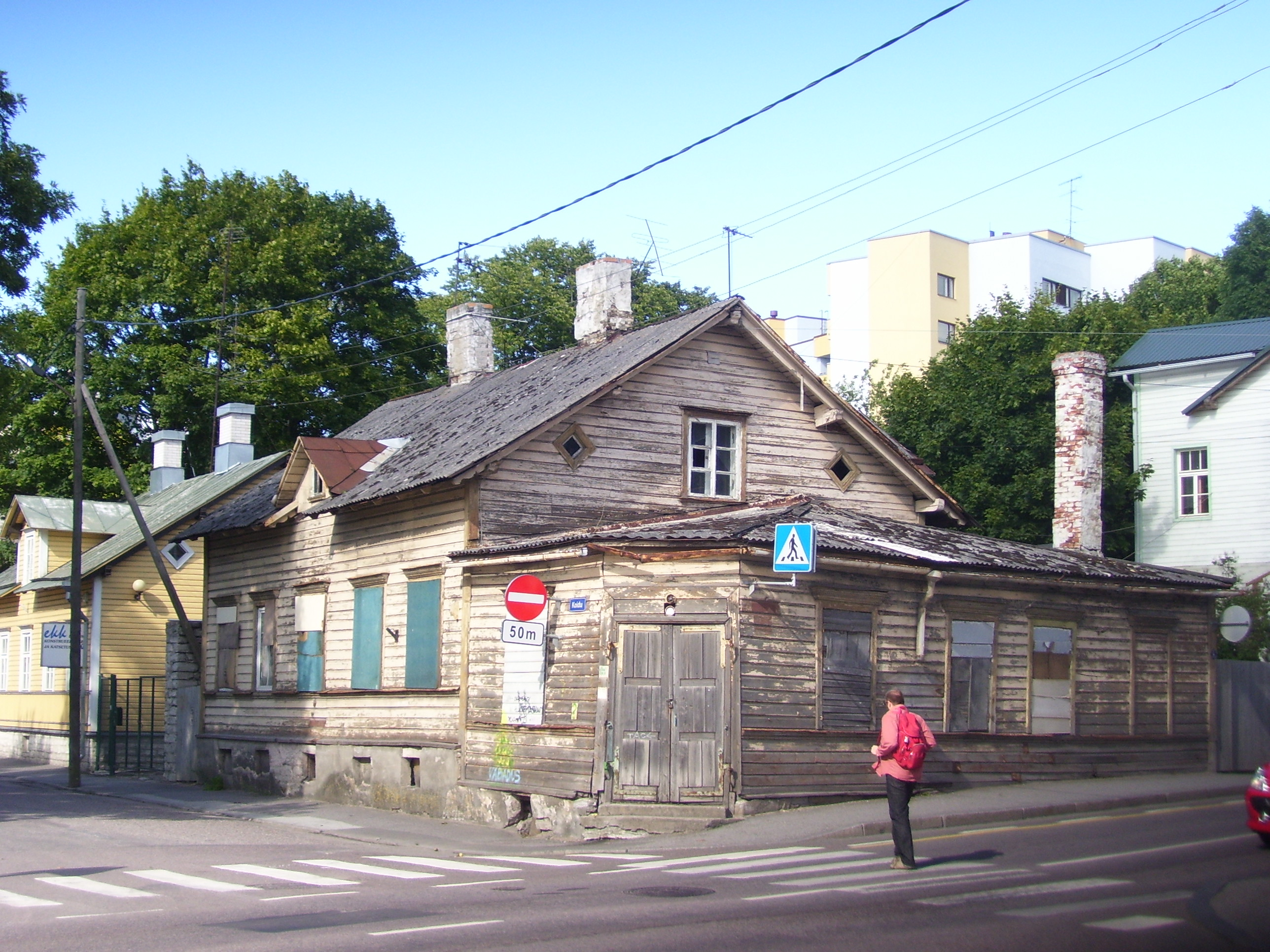 The quarter of Kassisaba in Tallinn. Wooden house at the crossing of Luise street and Koidu street.